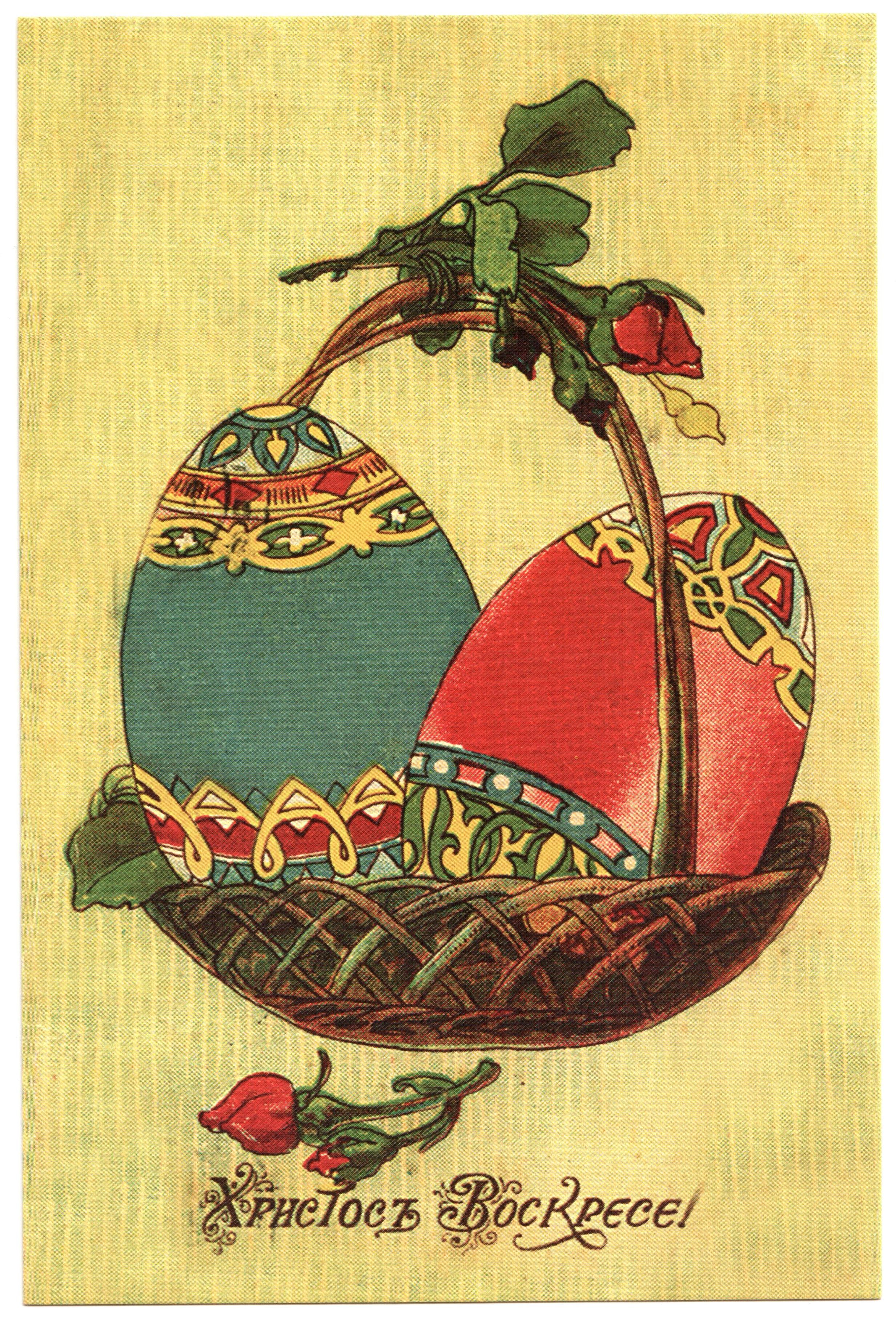 Christ is risen from the dead! A Russian Empire postcard.